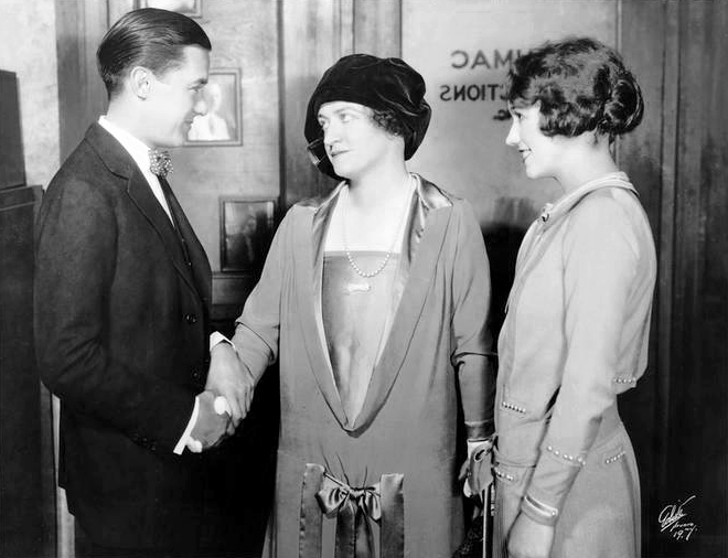 Photograph of Gregory Kelly as Peter Jones, Lucile Webster (Gleason) as Fanny Lehman, and Sylvia Field as Jane Weston in The Butter and Egg Man